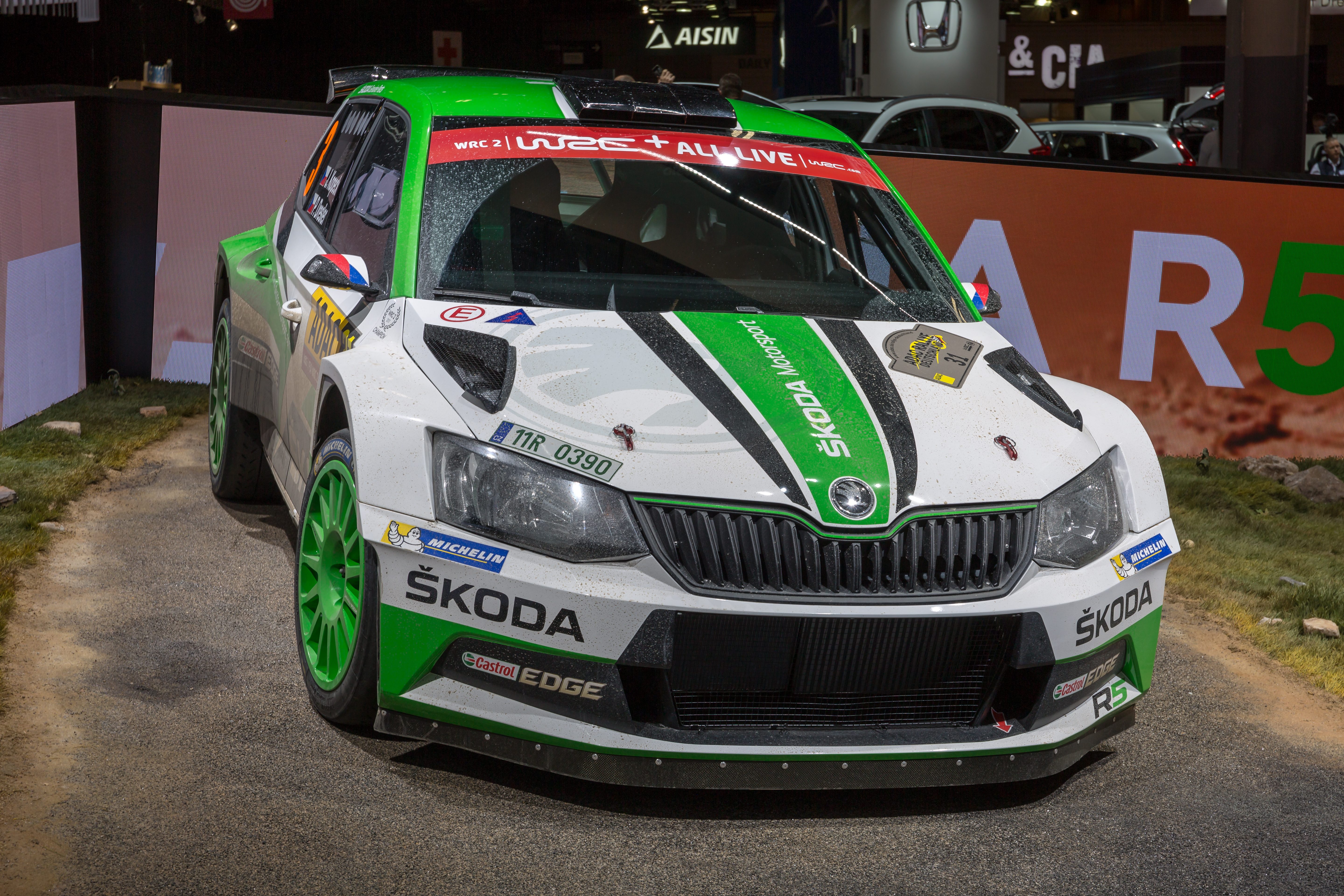 Skoa Fabia R5, Paris Motor Show 2018